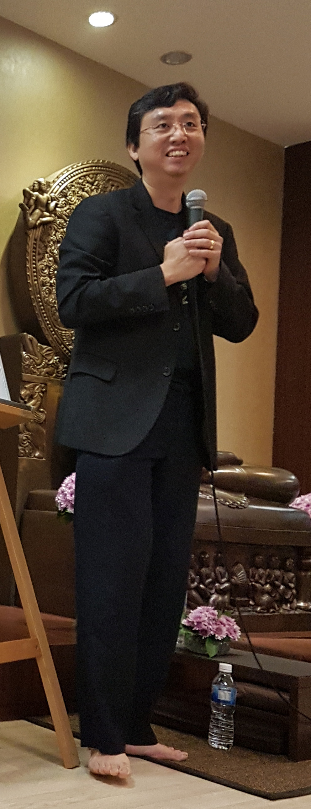 Chade-Meng Tan giving a talk at Buddhist Fellowship West Centre, Yeo's Building, Singapore on 15 July 2017.